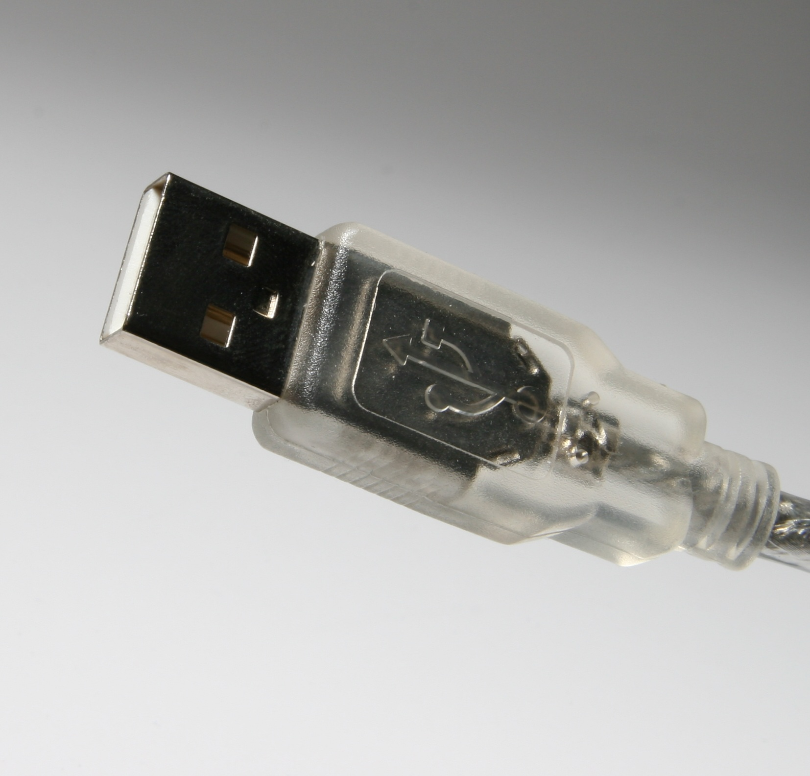 USB plug type A.